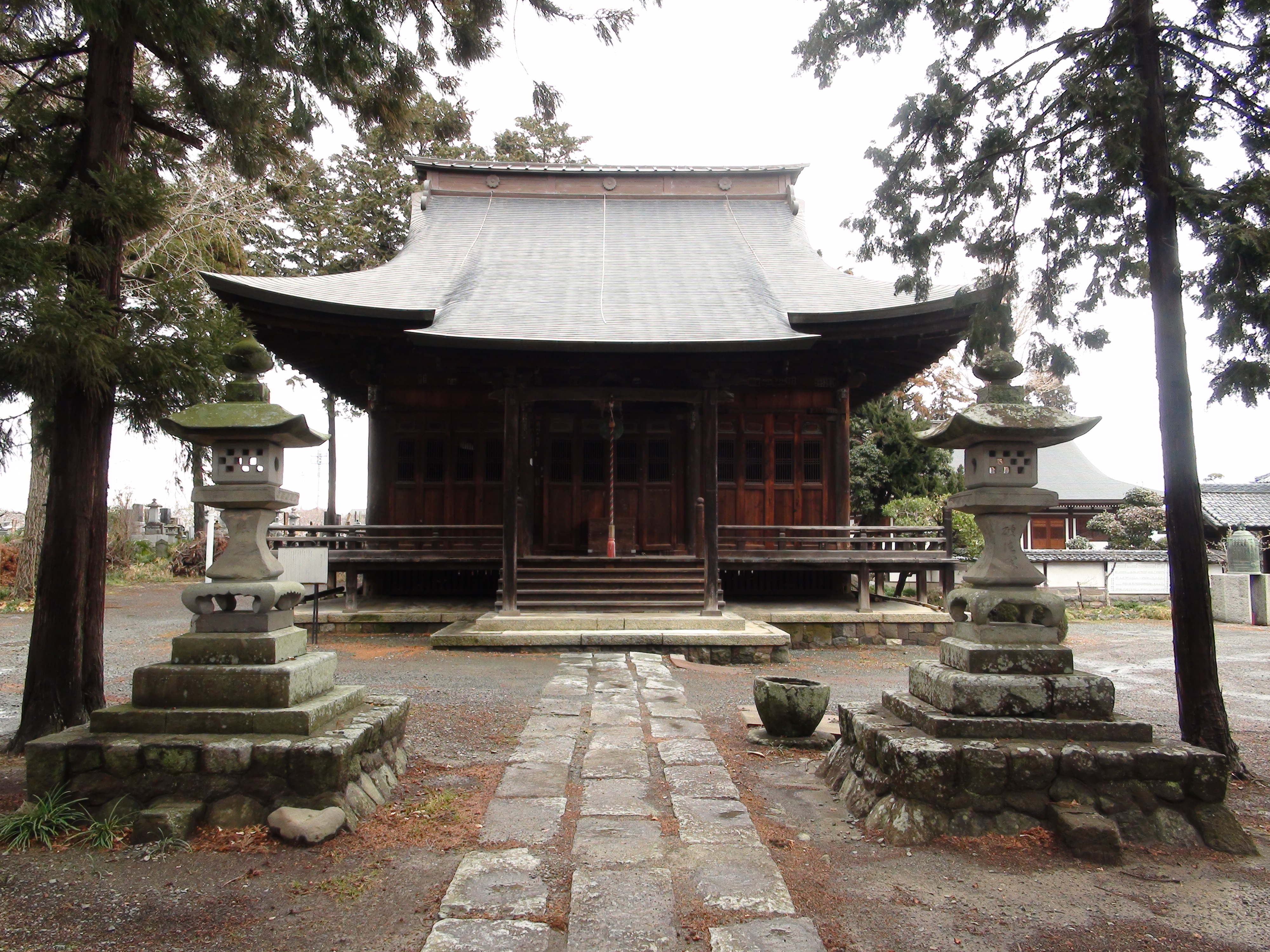 Chokokuji Temple Minami-alps City